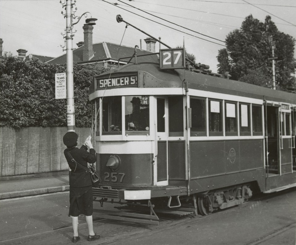 Woman in traffic services, conductor, aligns trolley pole on M&MTB tram No. 257, a W class tram built in 1924, converted to W2 class between 1928-1933.